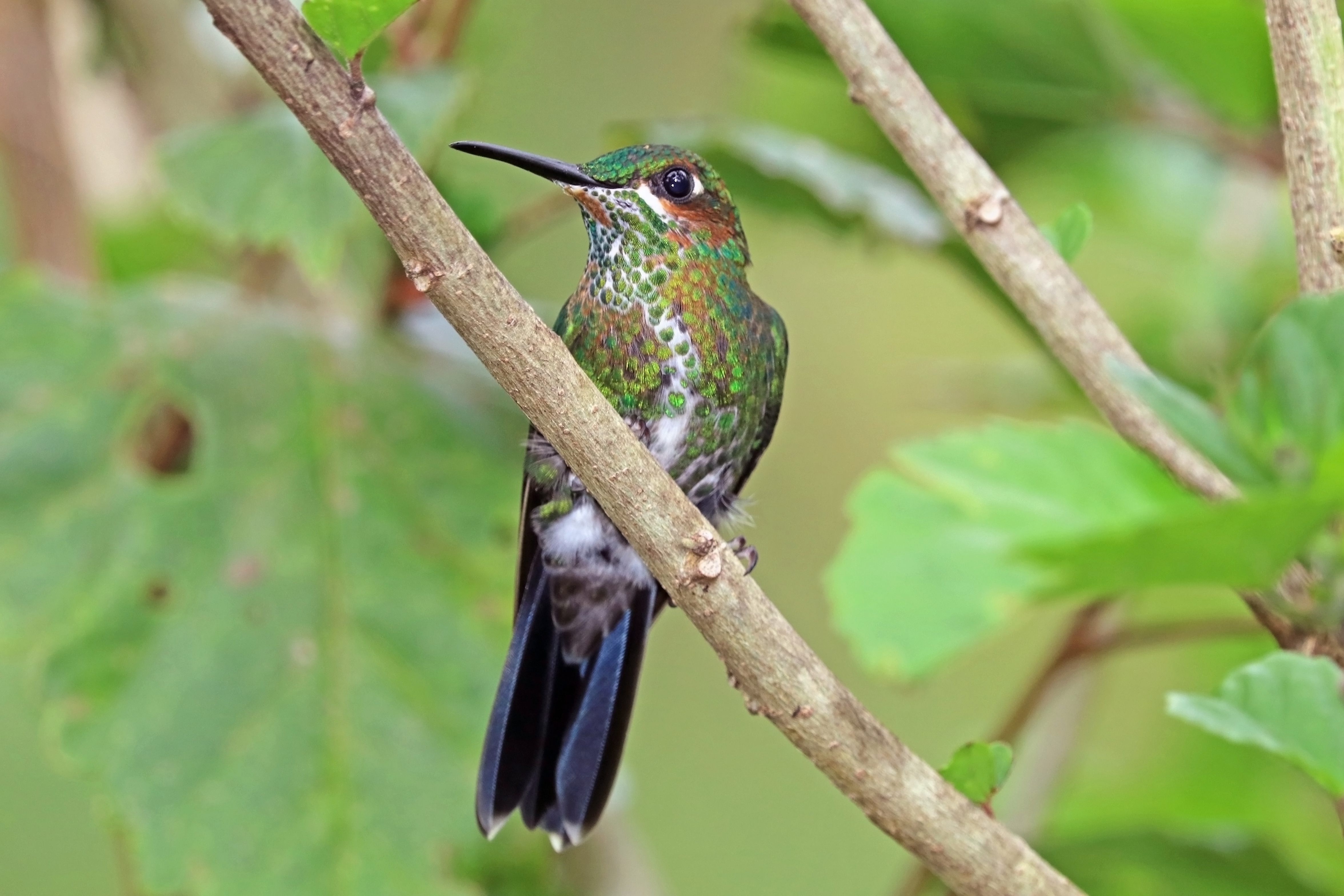 Green-crowned brilliant (Heliodoxa jacula henryi) juvenile, Mount Totumas cloud forest, Panama